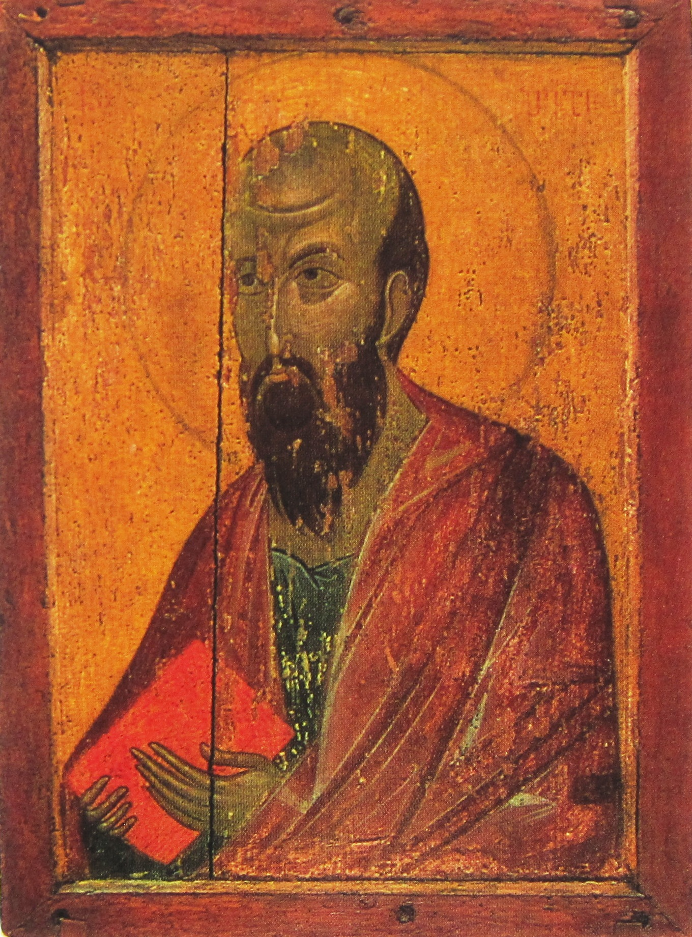 Icon of a Deesis tier from Ubisi